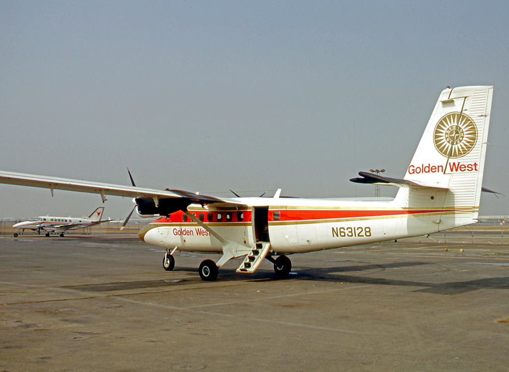 De Havilland Canada DHC-6 Twin Otter N63128 of Golden West Airlines at Los Angeles International in 1970